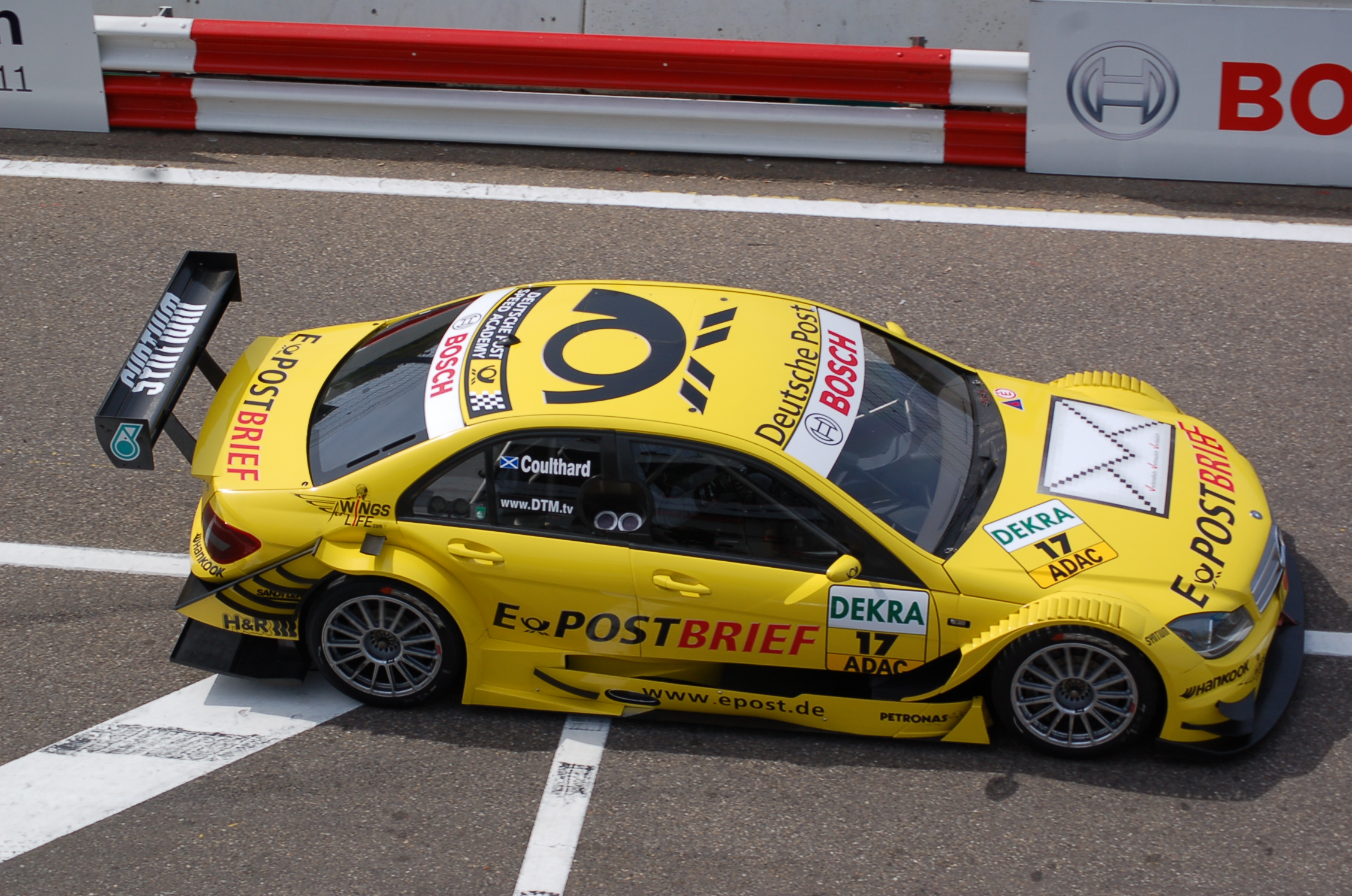 David Coulthard's DTM-car 2011